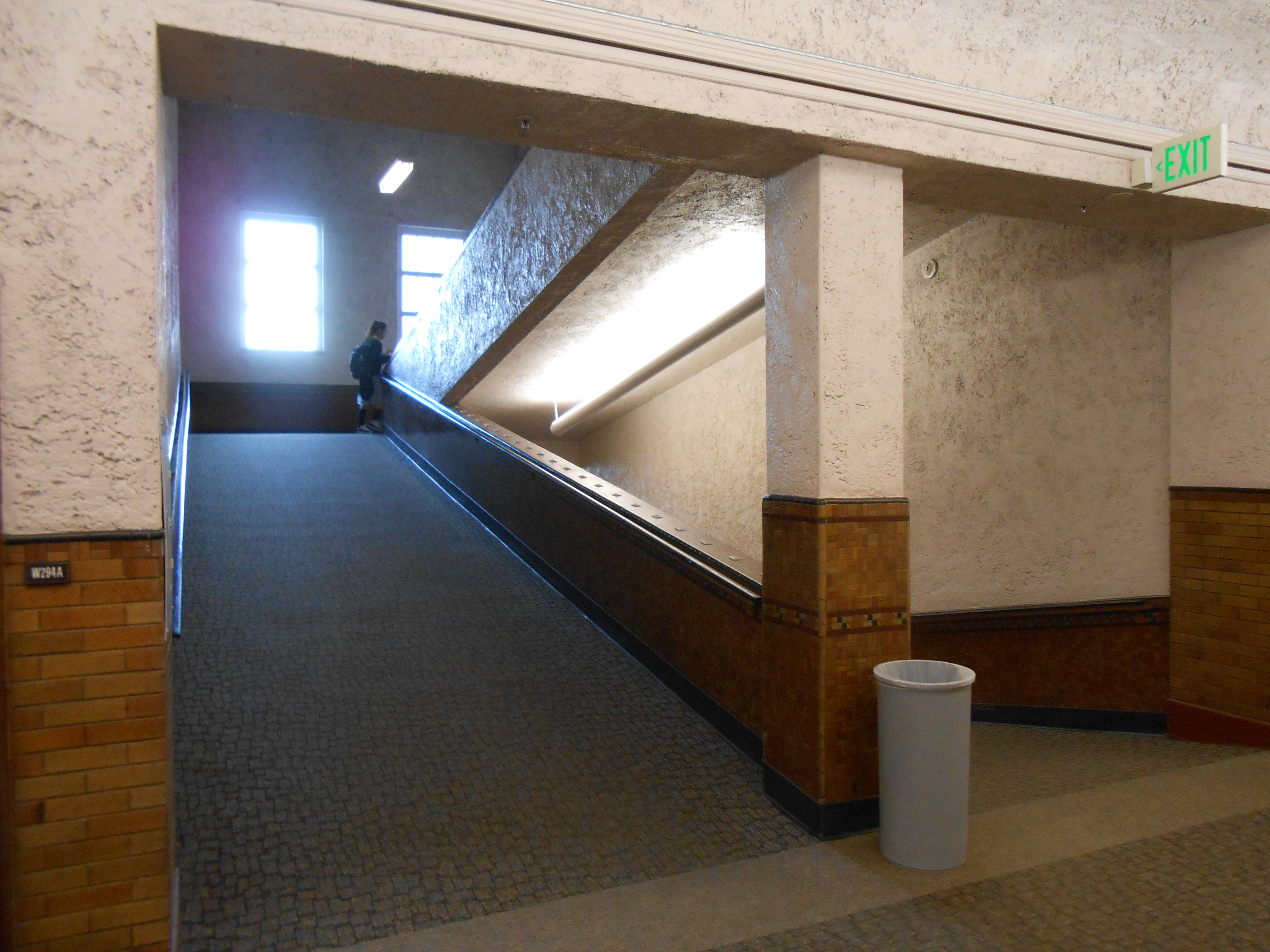 ramps inside South High School (Salt Lake City)